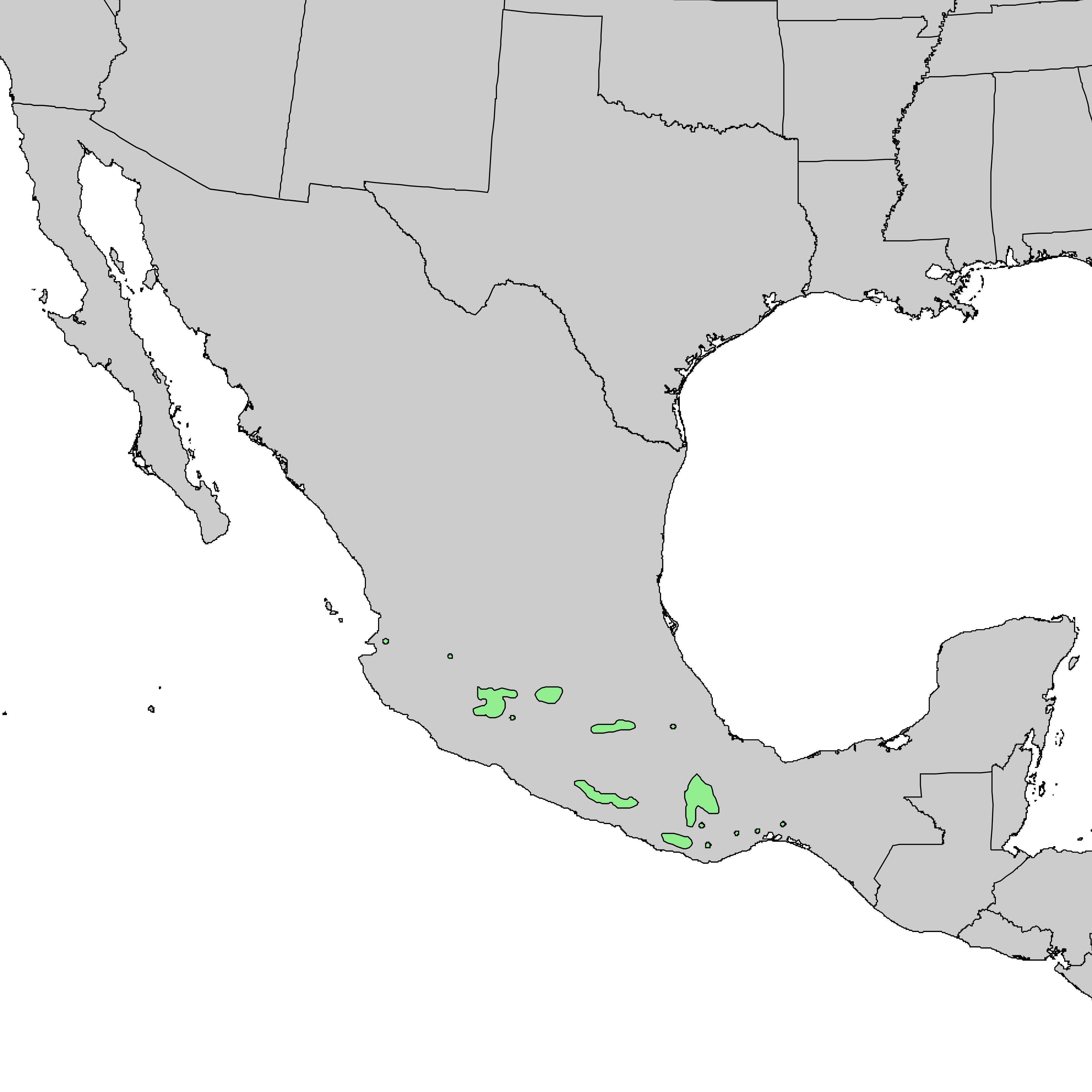 Natural distribution map for Pinus lawsonii